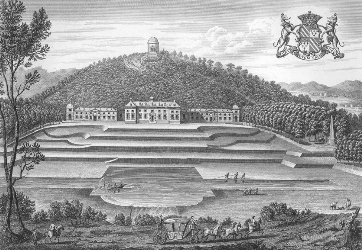 Engraving of Castle Hill, Filleigh, Devon, built by Hugh Fortescue, 1st Earl Clinton, 14th Baron Clinton (1696–1751), whose arms (Fortescue quartering Clinton) are shown at top right.